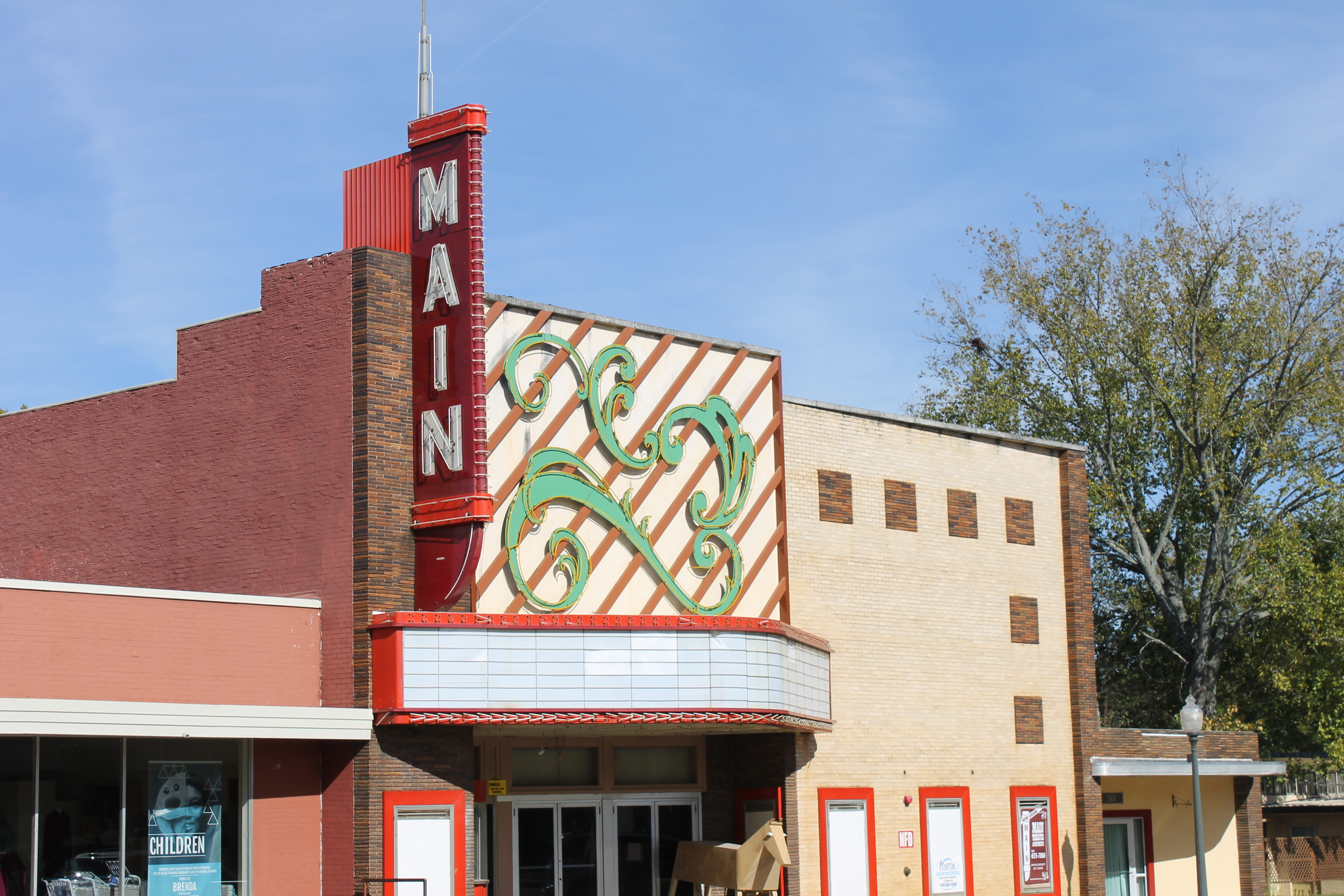 Abandoned Main Theater in Nacogdoches, TX